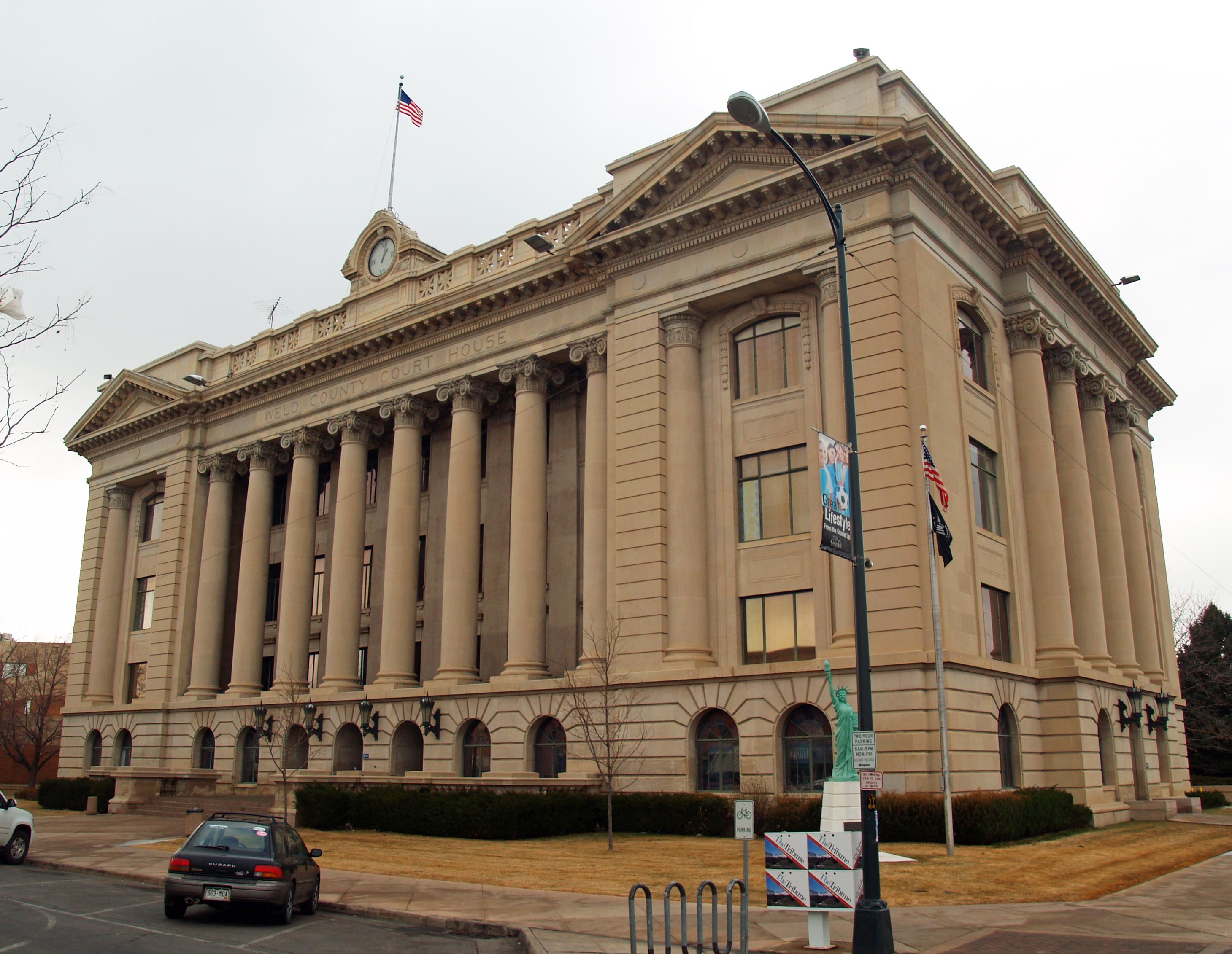 The Weld County Court House in Greeley, Colorado